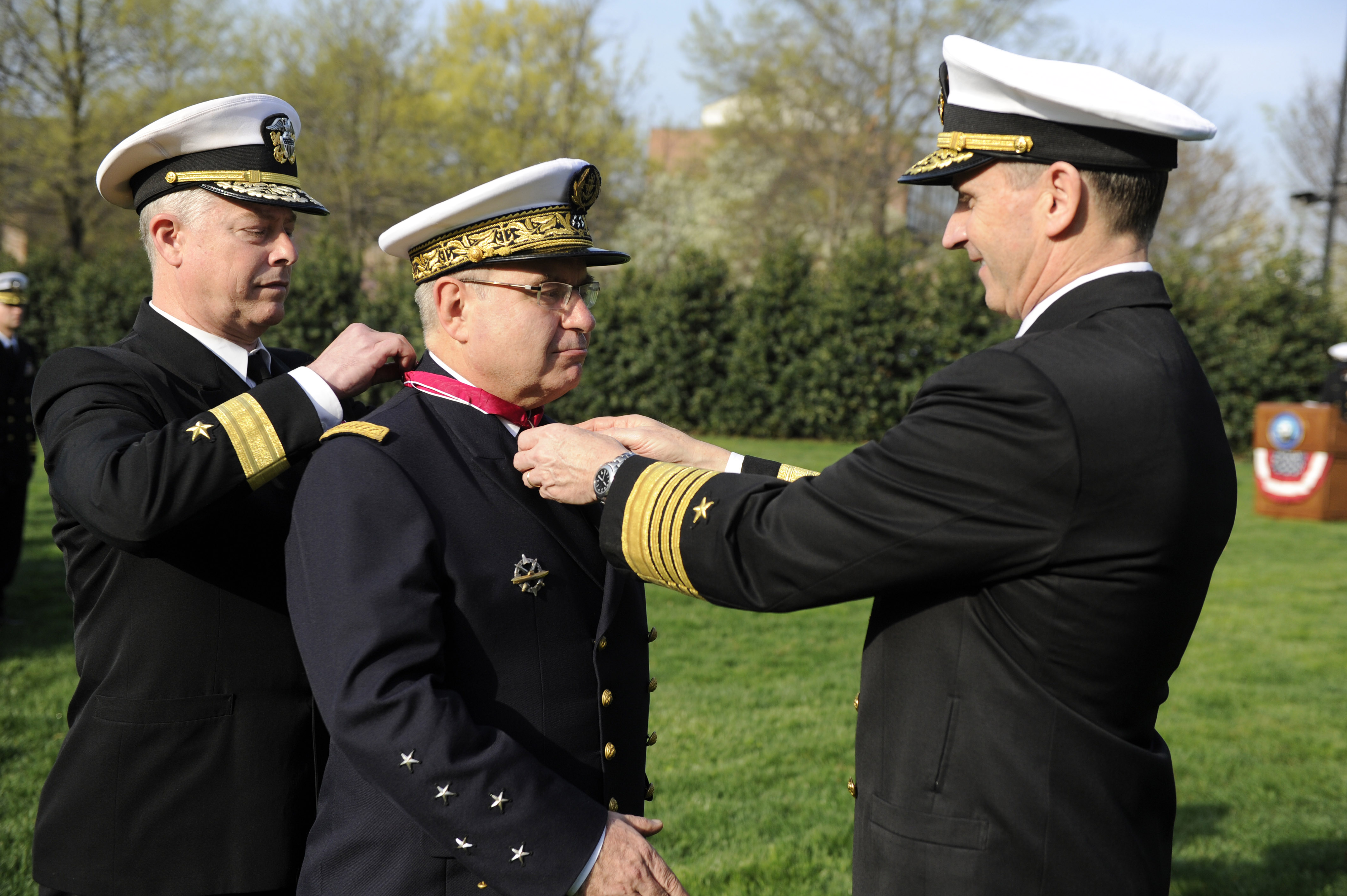 WASHINGTON (March 23, 2012) Chief of Naval Operations (CNO) Adm. Jonathan Greenert and Rear Adm. Patrick Lorge, commandant of Naval District Washington, present French Chief of Naval Staff Adm. Bernard Rogel with a Legion of Merit award at a full honors ceremony to honor Adm. Rogel and his visit to the U.S. (U.S. Navy photo by Mass Communication Specialist 1st Class Peter D. Lawlor/Released) 120323-N-WL435-409